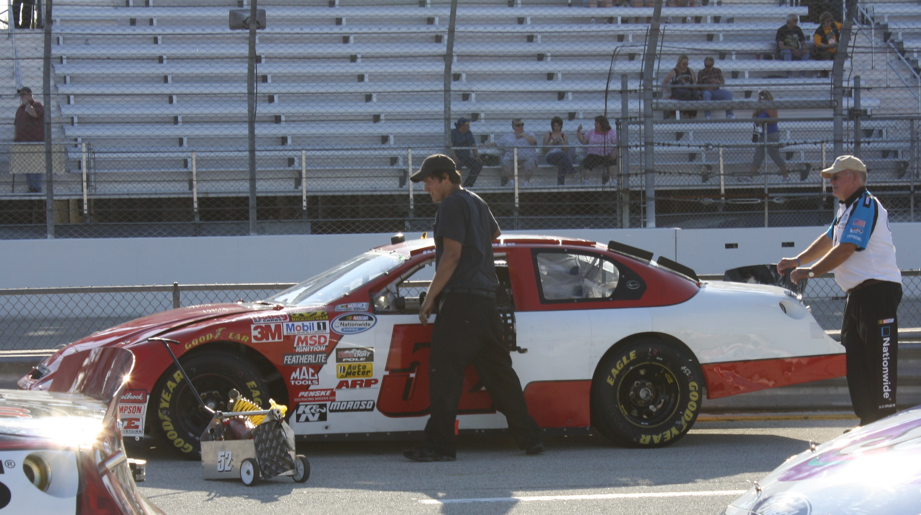 NASCAR driver Kevin Lepages car being pushed off after not qualifying for the 2009 Northern 250 Nationwide Series race at the Milwaukee Mile.